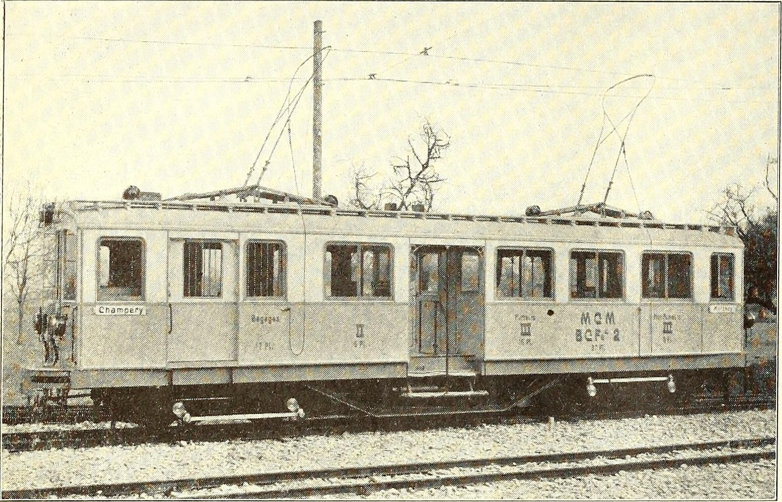 Title: Electric railway journal Year: 1908 (1900s) Authors: Subjects: Electric railroads Publisher: (New York) McGraw Hill Pub. Co Text Appearing Before Image: e other two motors are connected to therunning axles of the car and are operated in series with 8.55 km an hr. 10.8 km an In.(5.3 m.p.h.) (6.7 m.p.h.) Tola! tractive effort 6,000 kg (13,200 lb.) 3,000 kg (6,600 lb.) Tractive effort of rack motors. ■ . . 4,140 kg ( 9,108 lb.) ;,ooo kg (4,400 lb.)Tractive effort of adhesion motors, 1,860 kg ( 4,0921b.) 1,000 kg (2,200 lb.) Current per rack motor 164:2 = 82. amp 95 :2 — 47.5 amp Current per adhesion motor 77. amp 49. amp Total current 241. amp 144. amp Kacli motor car has two trucks, placed 7.5 m (24.5 ft.)( ( iiicrs and carrying one motor for each class of service. 468 ELECTRIC RAILWAY JOURNAL. (Vol. XXXIV. No. 13. The wheels of each truck arc connected with driving rodsand the trucks are so arranged that the axles driven bythe adhesion motors are always in front when going uphill. All the motors use nose-suspension and are out-side hung. The adhesion motors have single reductiongearing, and the rack motors double reduction. The mo- Text Appearing After Image: Monthey-Champery Railway—Four-Compartment Central-Entrance Motor Car with Driving Rods tors on three cars have an hourly rating of 75 hp each at750 volts and 500 r.p.m. These cars haul one trailer. Afourth car with four 100 hp motors hauls two trailers.The electrical equipment on each platform comprises acontroller, two circuit breakers (one for adhesion andthe other for rack motors), two ammeters and one volt-meter. The fuses for each set of motors and the light-ning arresters are mounted on the roof controllers.The platform controllers are of a special three-cylinder